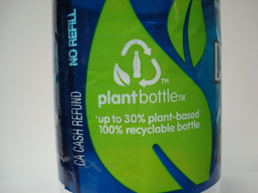 Example of label highlighting environmentally friendly packaging